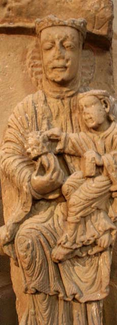 Aradon Virgin in sandstone